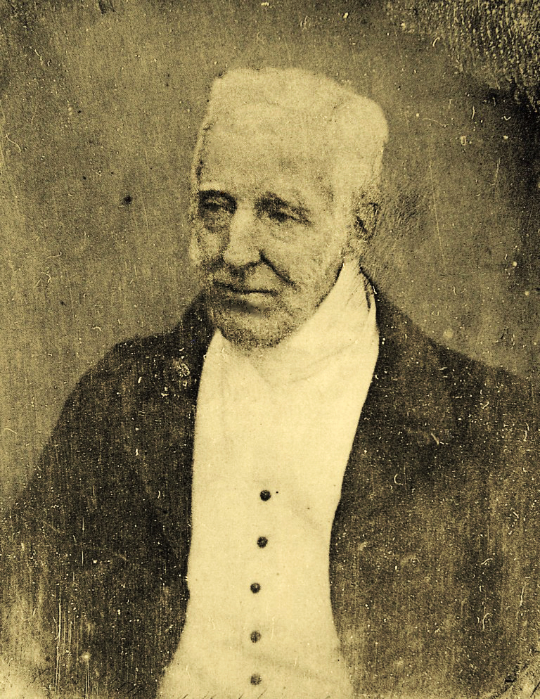 A daguerreotype portrait of the aged Arthur Wellesley, 1st Duke of Wellington taken in 1844.